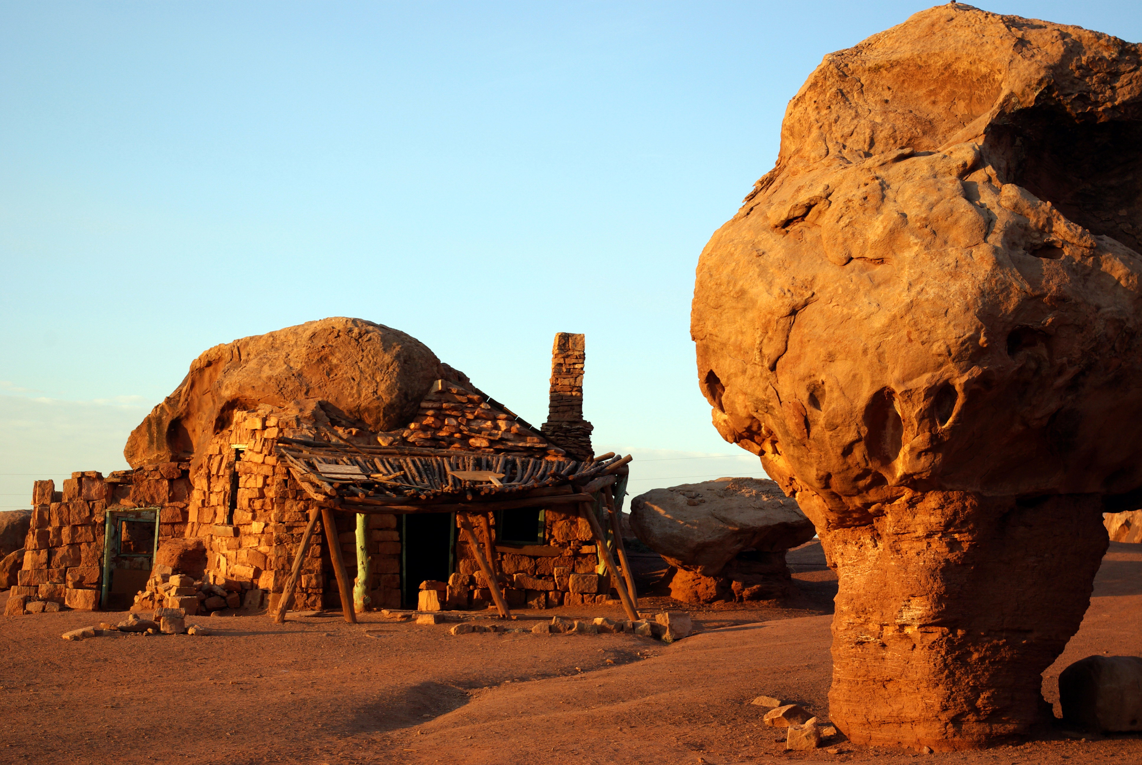 Around 1927, Blanche Russell's car broke down near here. She liked the area, bought the property and built this in the 1930's. These "mushroom rocks" in the foreground are interesting. They tumble down, the earth erodes under them, they tumble down again and repeat the process over & over. This is just north of the Navajo Bridge on US 89A. North of Flagstaff & Cameron, West of Page & Lee's Ferry. Near the Vermilion Cliffs and the Cliff Dwellers Lodge on the way to Jacob Lake and the intersection with SR 67 which goes to the North Rim of the Grand Canyon. This route using House Rock Valley Road was part of a Mormon trail known as the Honeymoon Trail, since many Mormons traveled this route on the way to get married in the St. George Utah Temple until the Mesa Arizona Temple was completed in 1927. Here's a slightly different angle & view.